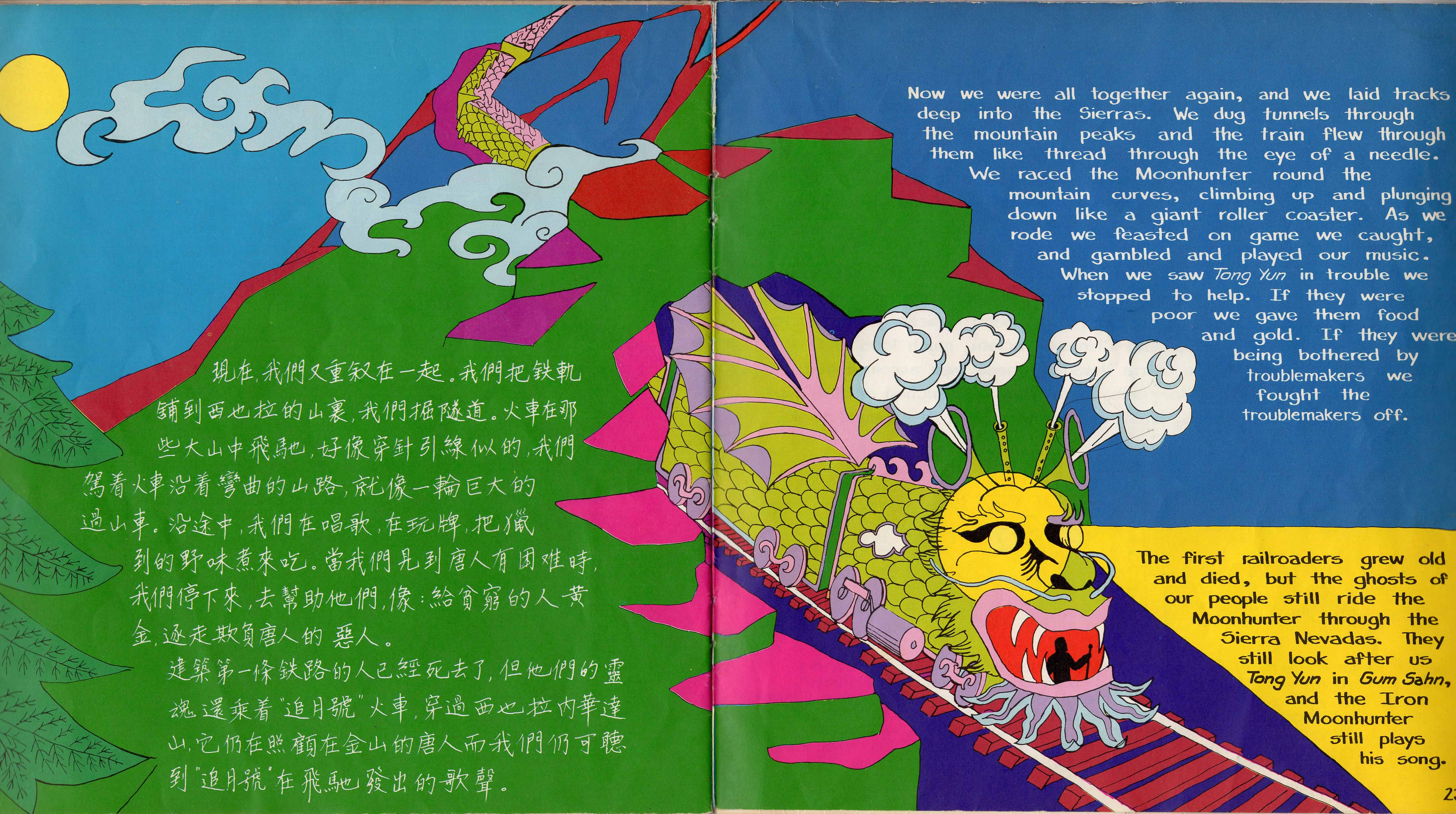 The Iron Moonhunter (追月號), written and illustrated by Kathleen Chang; translated into Chinese by Chiu-Chung Liao; published in 1977 by Children's Book Press: San Francisco (ISBN 0-89239-011-5)